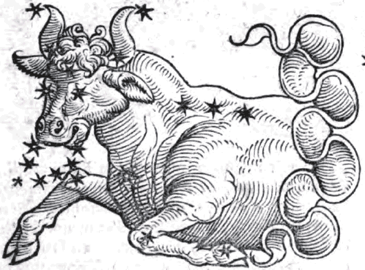 Taurus the Bull, from Guido Bonatti Liber Astronomiae